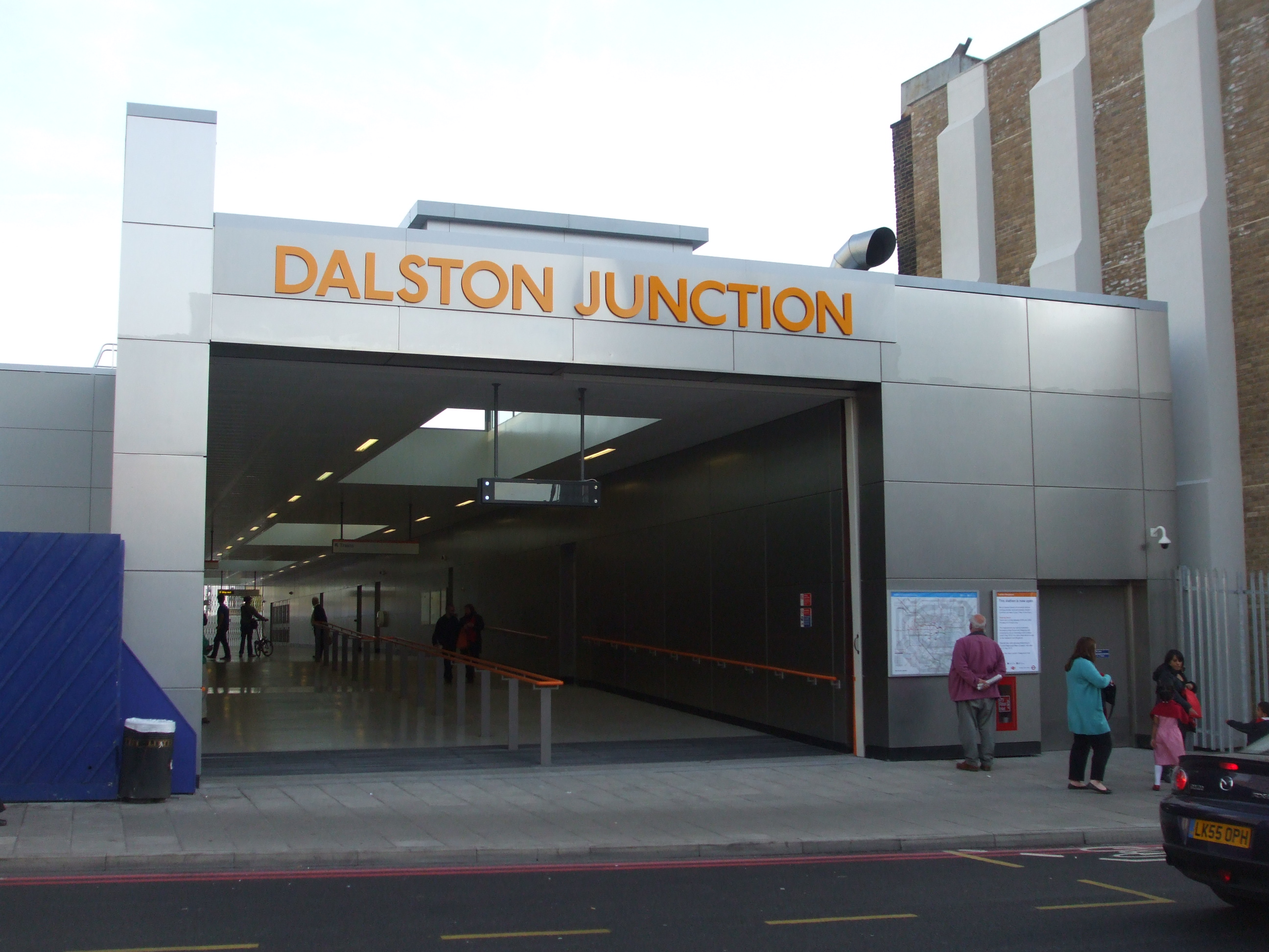 Dalston Junction station on the East London Line, on first day of opening, 27 April 2010.